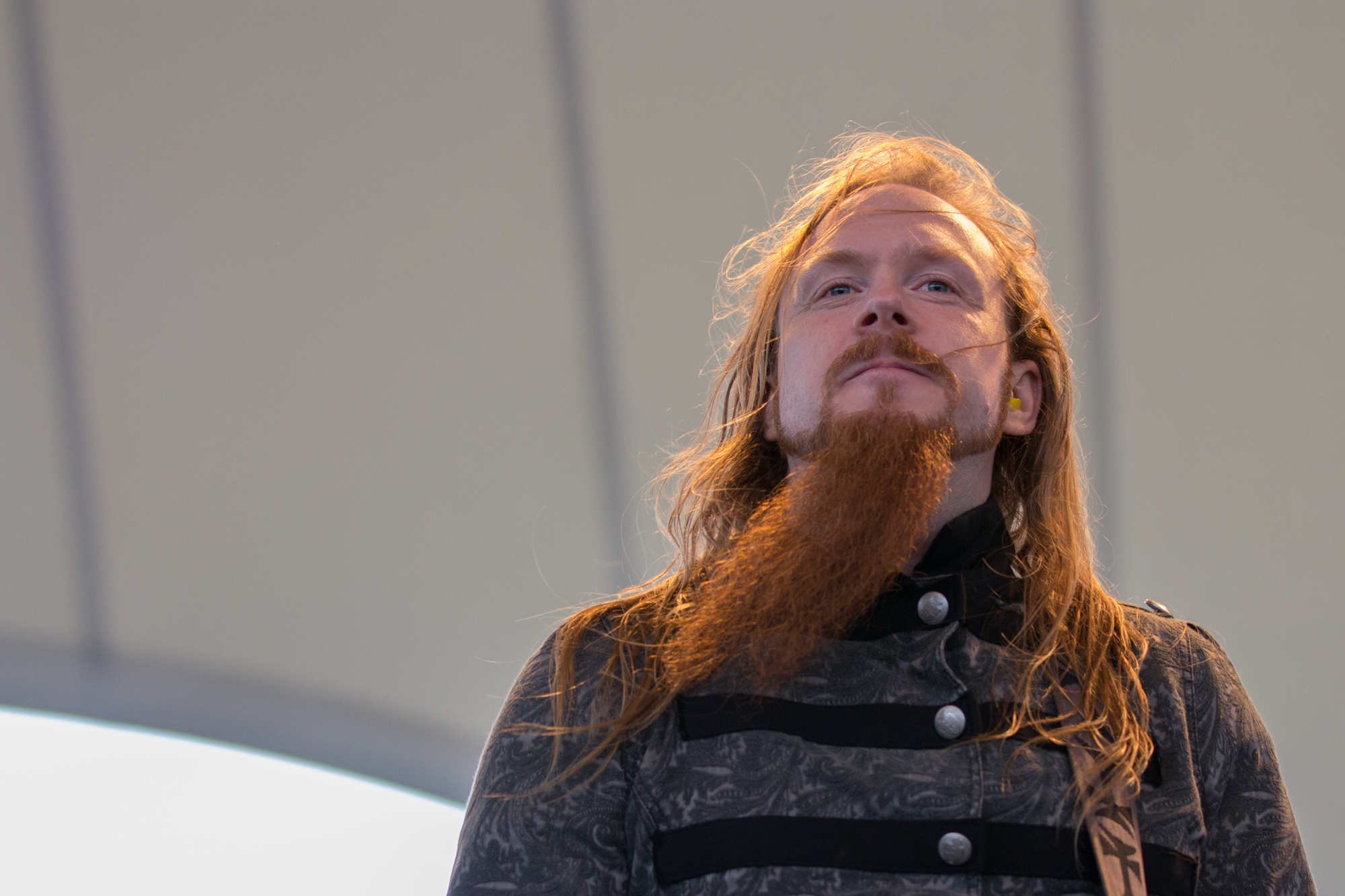 Civil War at Noch ein Bier Fest 2015 (Amphitheater, Gelsenkirchen, North-Rhine-Westphalia, Germany) on 25th July 2015